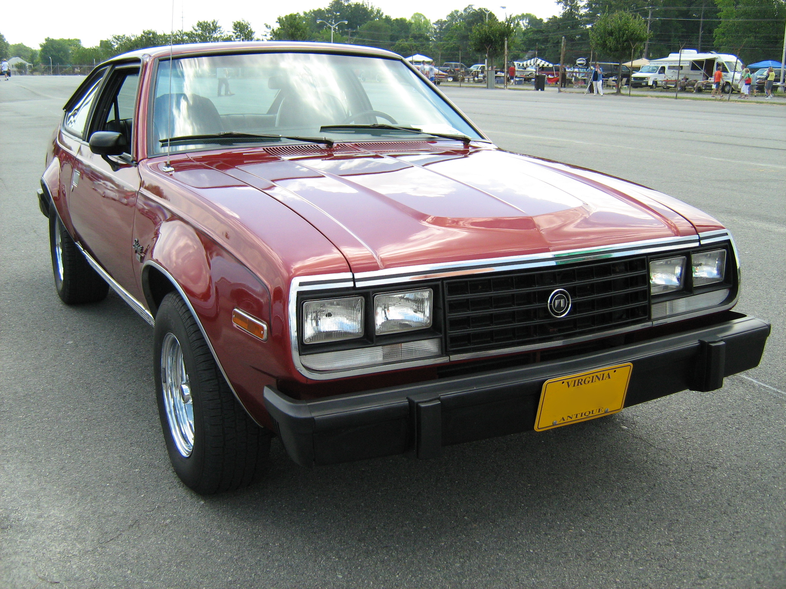 1979 AMC Spirit GT. A subcompact 2-door liftback with factory 304 CID (5.0 L) V8 engine and four-speed manual transmission. Finished in Russet Metallic.